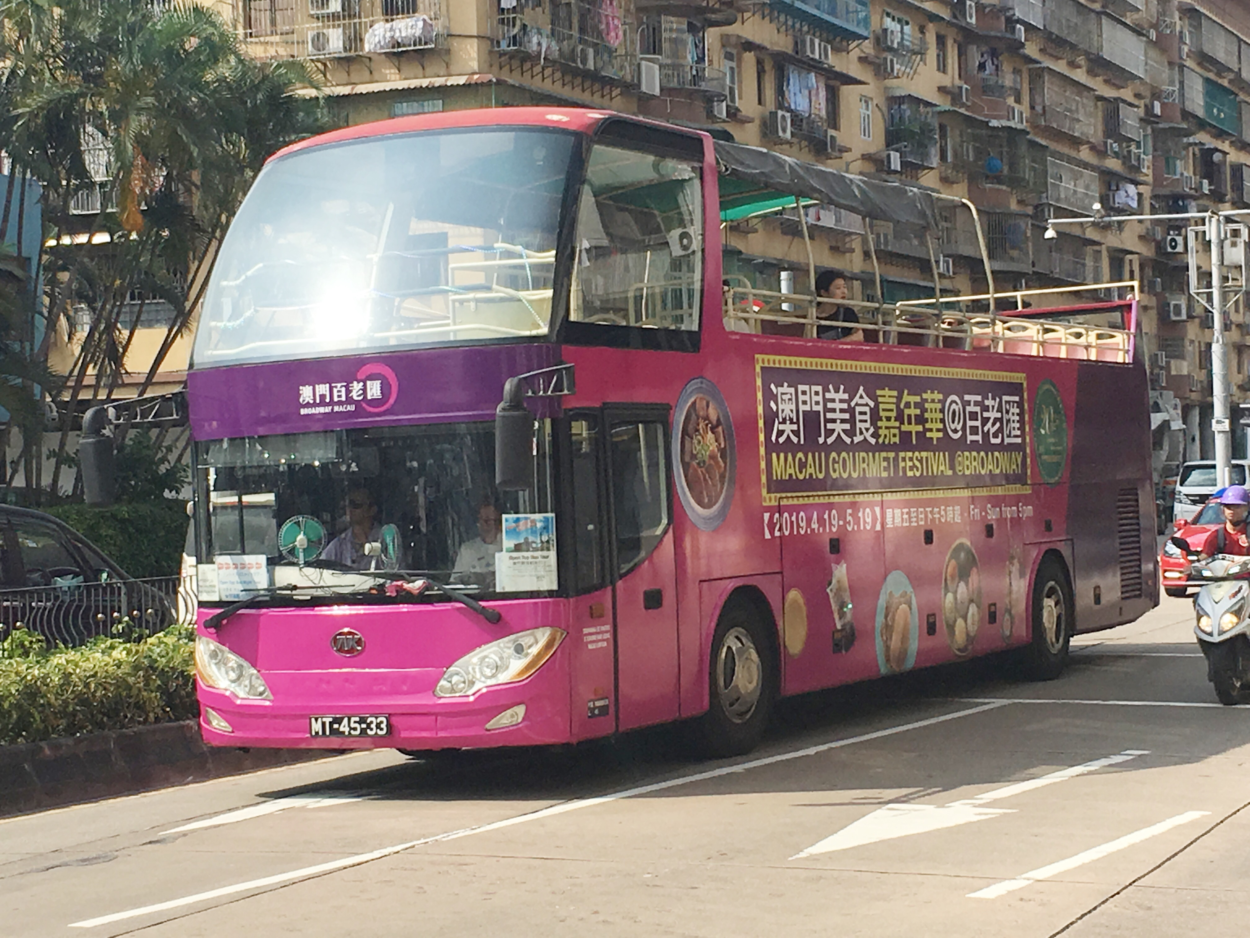 中文（香港）: This photo is taken in Barra.